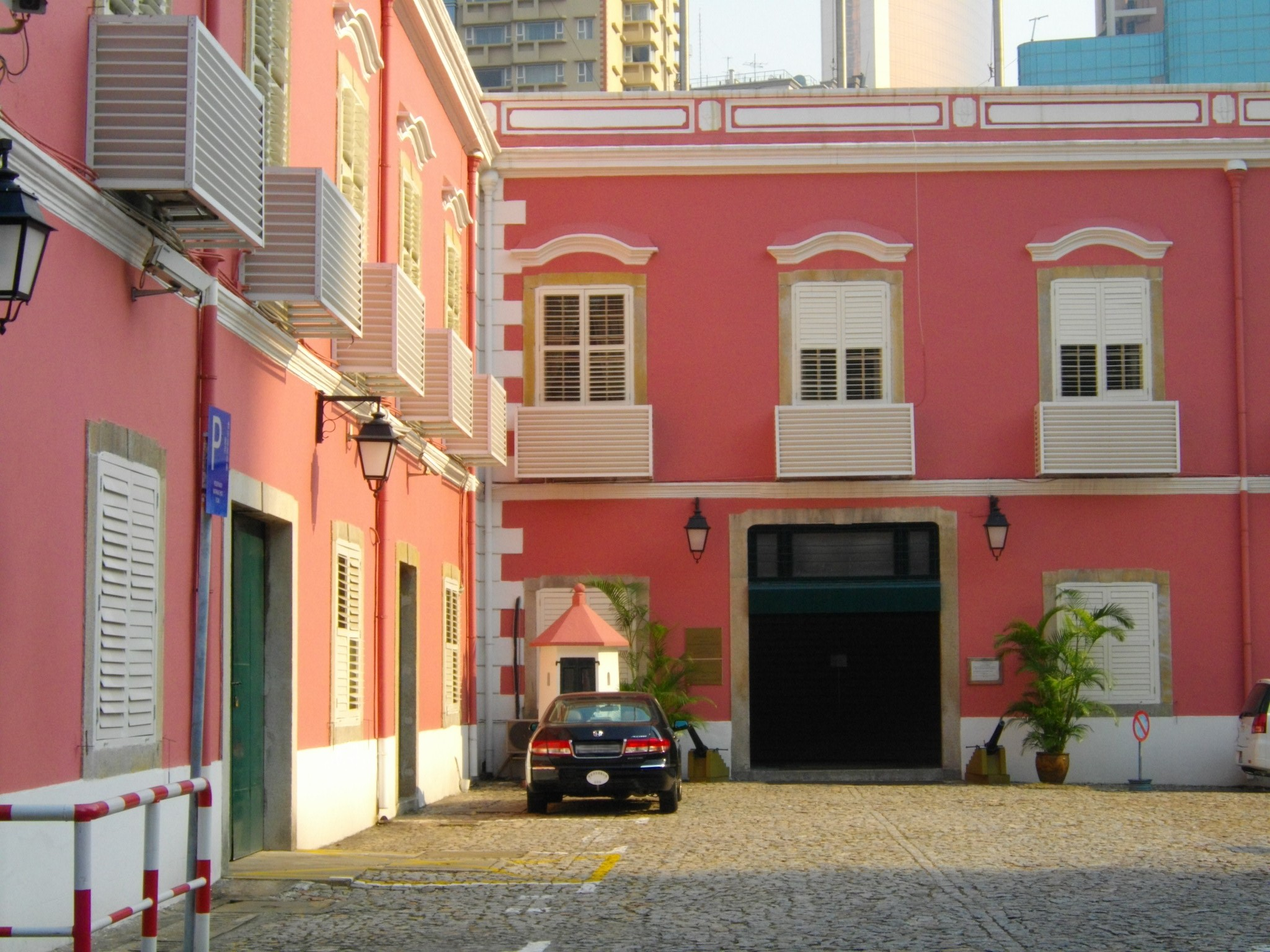 Macau Security Forces Affairs Bureau